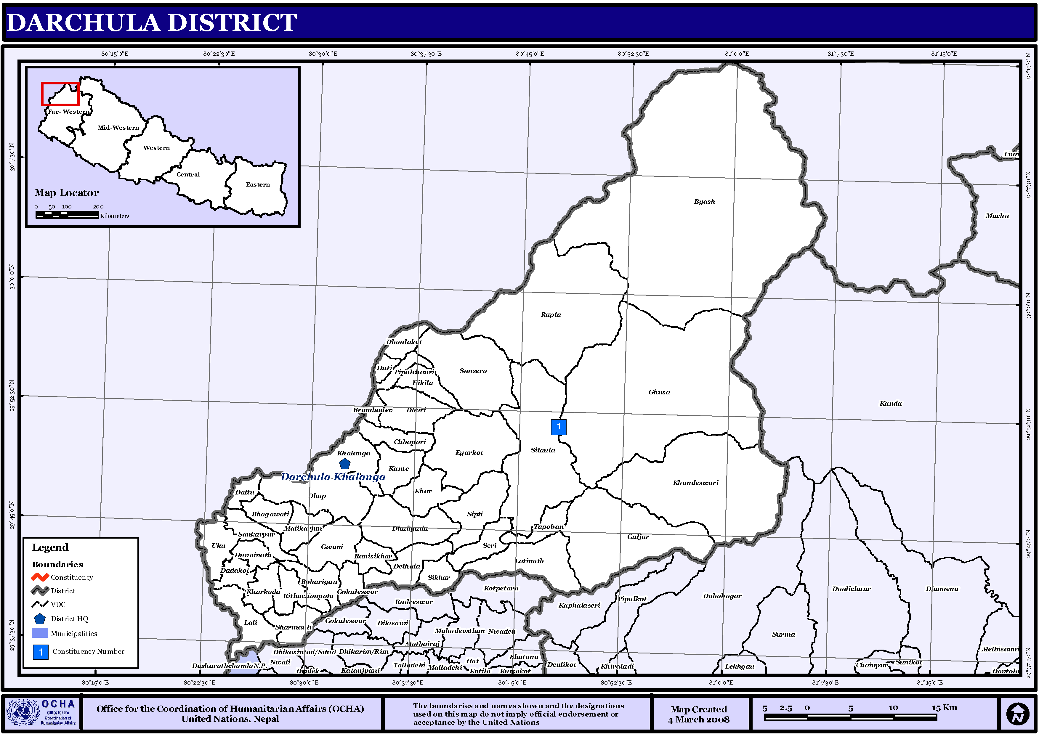 Map displaying Village Development Committees in Darchula District, Nepal